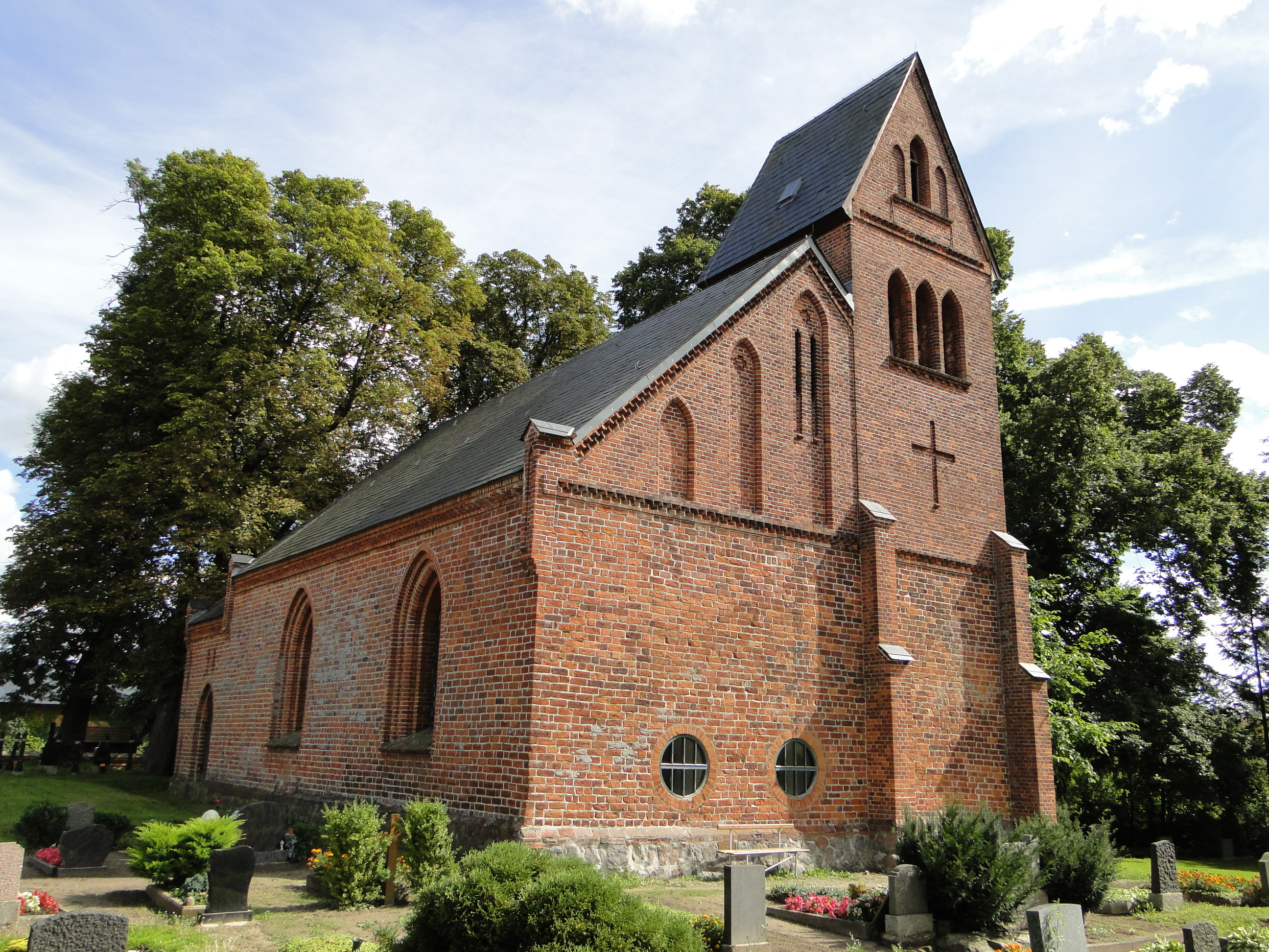 Church in Groß Flotow, district Müritz, Mecklenburg-Vorpommern, Germany